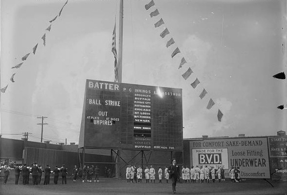 Flag raising at Washington Park in Brooklyn, New York, April 1915. Teams shown on scoreboard are for the Federal League, which only lasted from 1914-1915. The Brooklyn Tip Tops finished seventh out of eight teams in 1915.